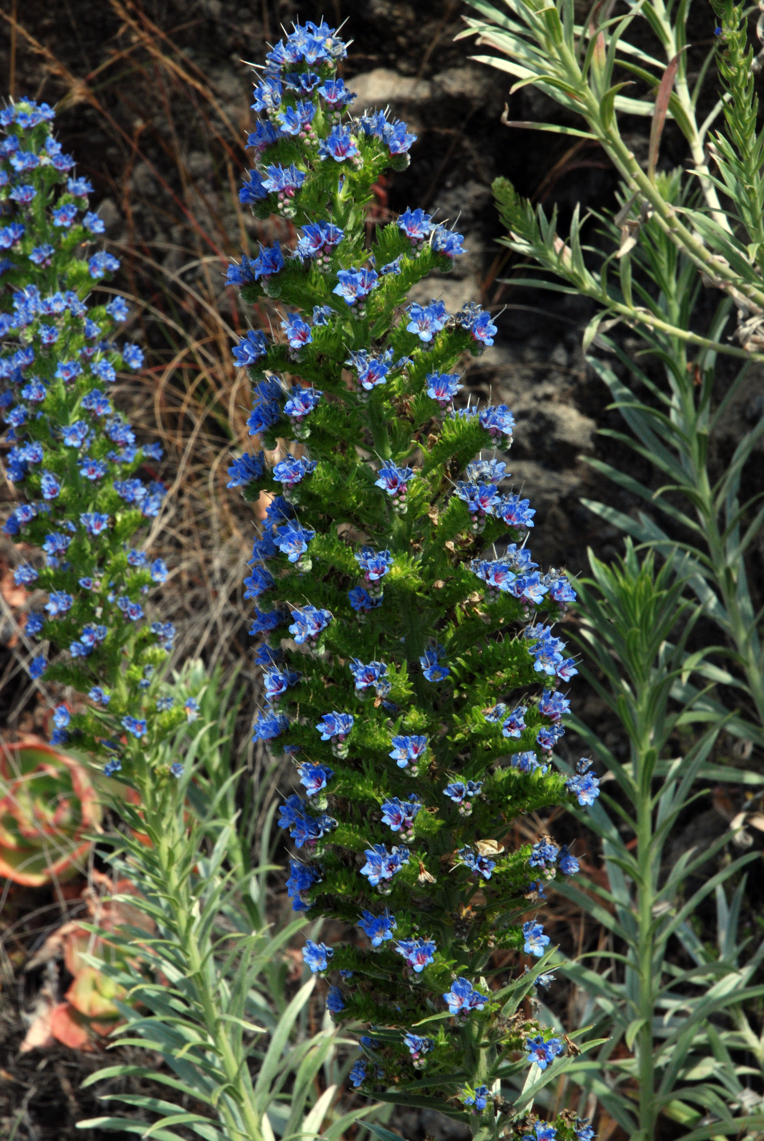 Echium webbii, Caldera de Taburiente (Near La Caldera), La Palma, Spain